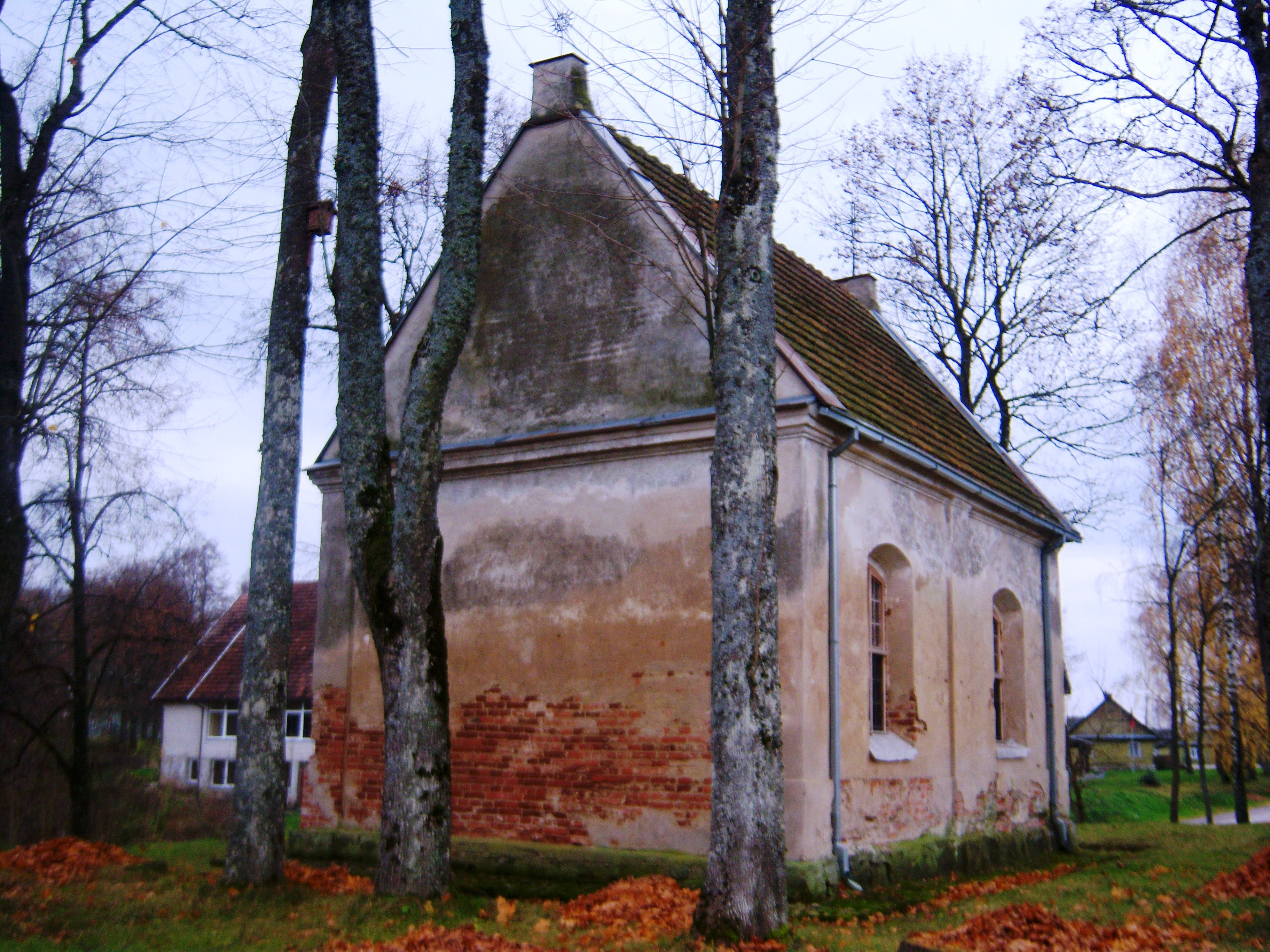 Chapel of the former monastery, Paparčiai, Kaišiadorys District, Lithuania